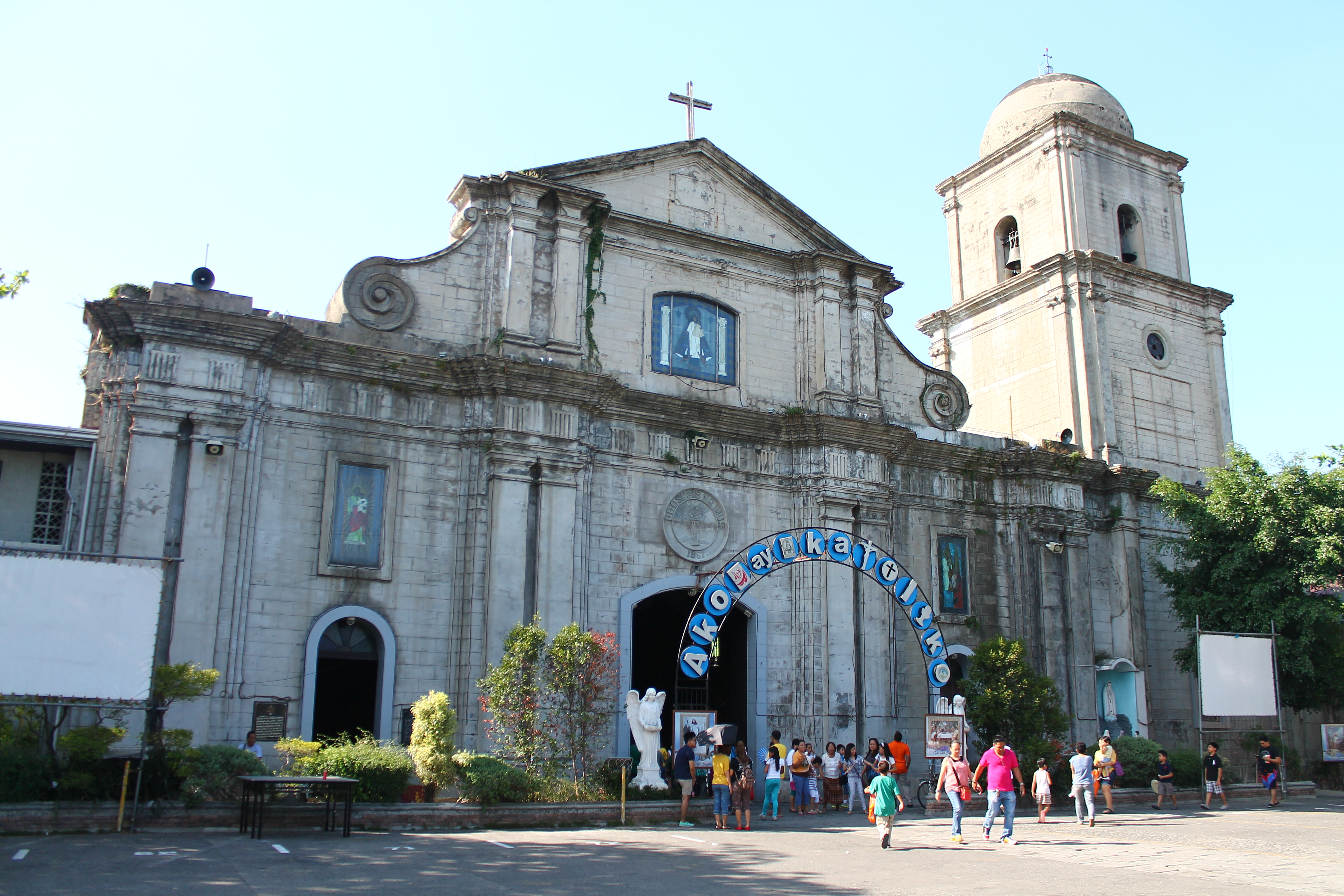 The Imus Cathedral in the province of Cavite, the Philippines.